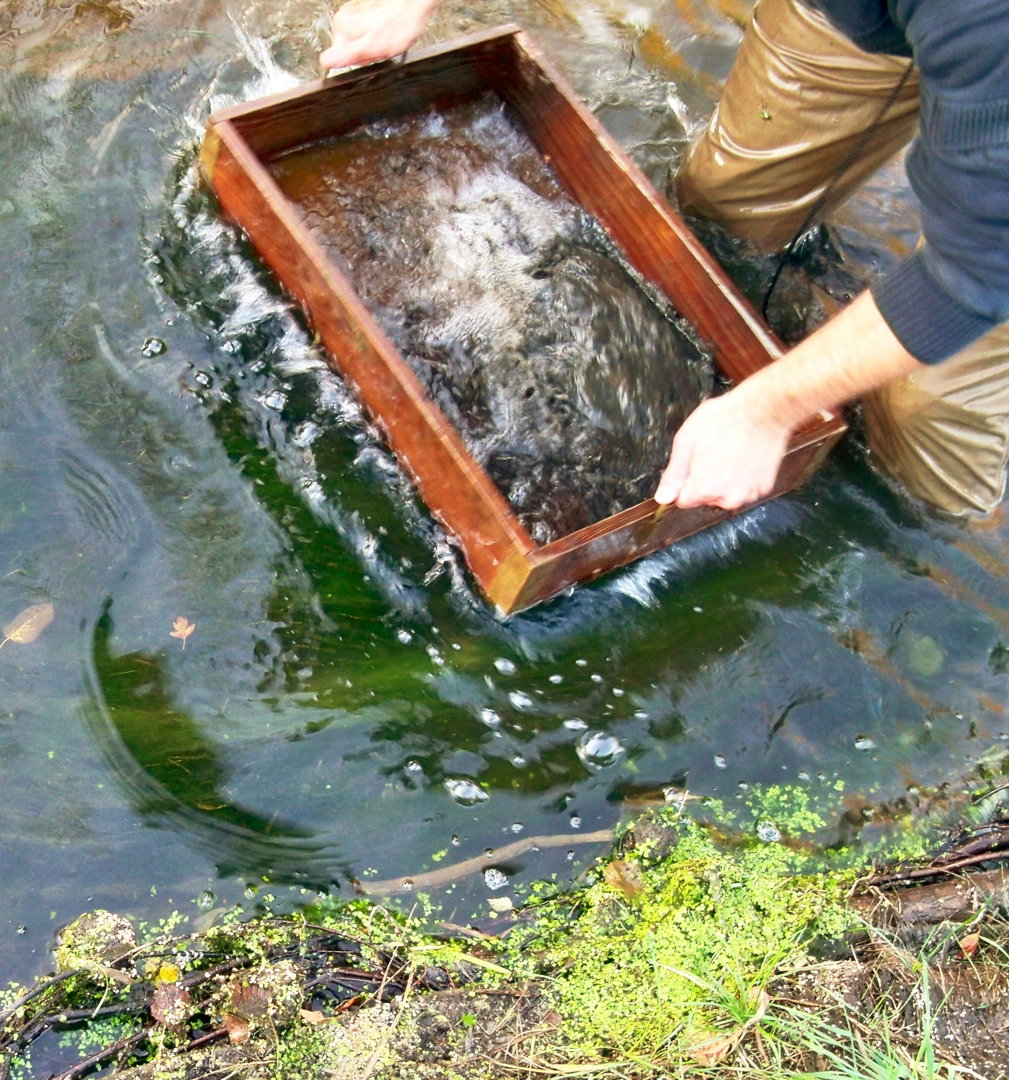 Benthic sieve